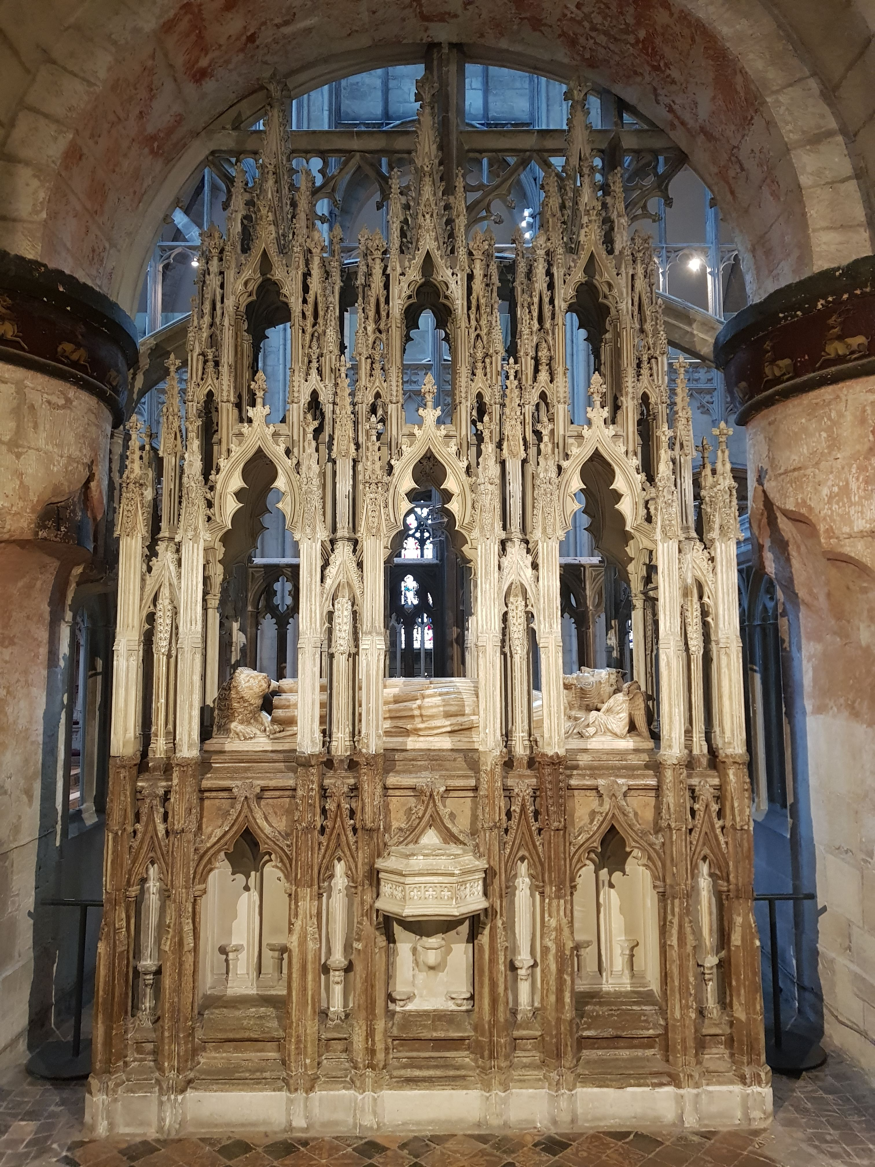 Gloucester Cathedral, February 2019 Gloucester Cathedral, 13 Feb 2019